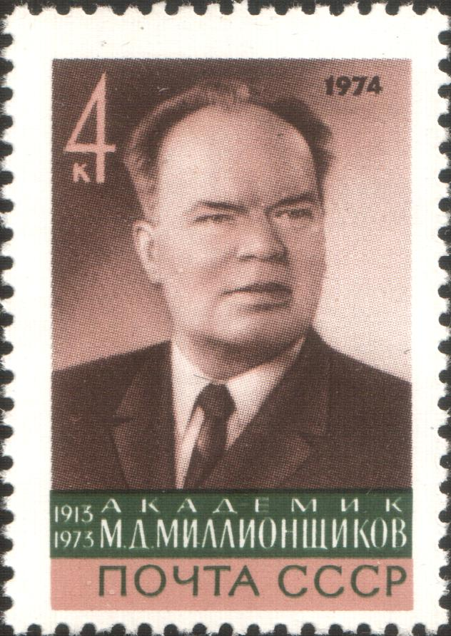 USSR stamp